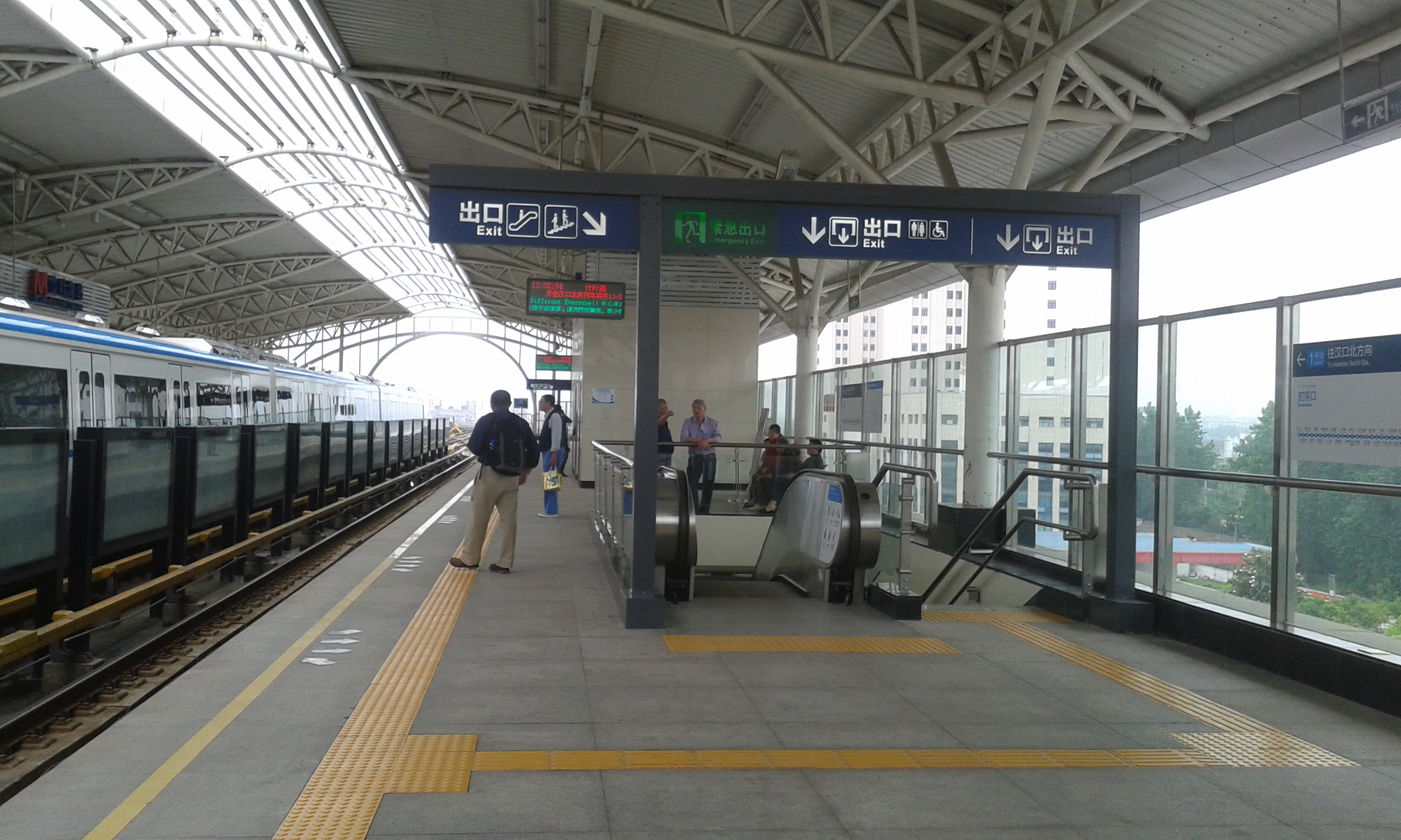 Platform of Zhuyehai Station, Wuhan Metro